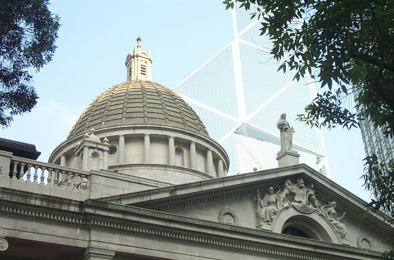 The building of the Legislative Council of Hong Kong (I took this photograph by myself in 2003.)